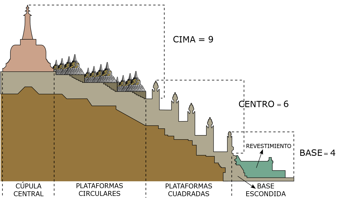 spanish language half cross section of Borobudur